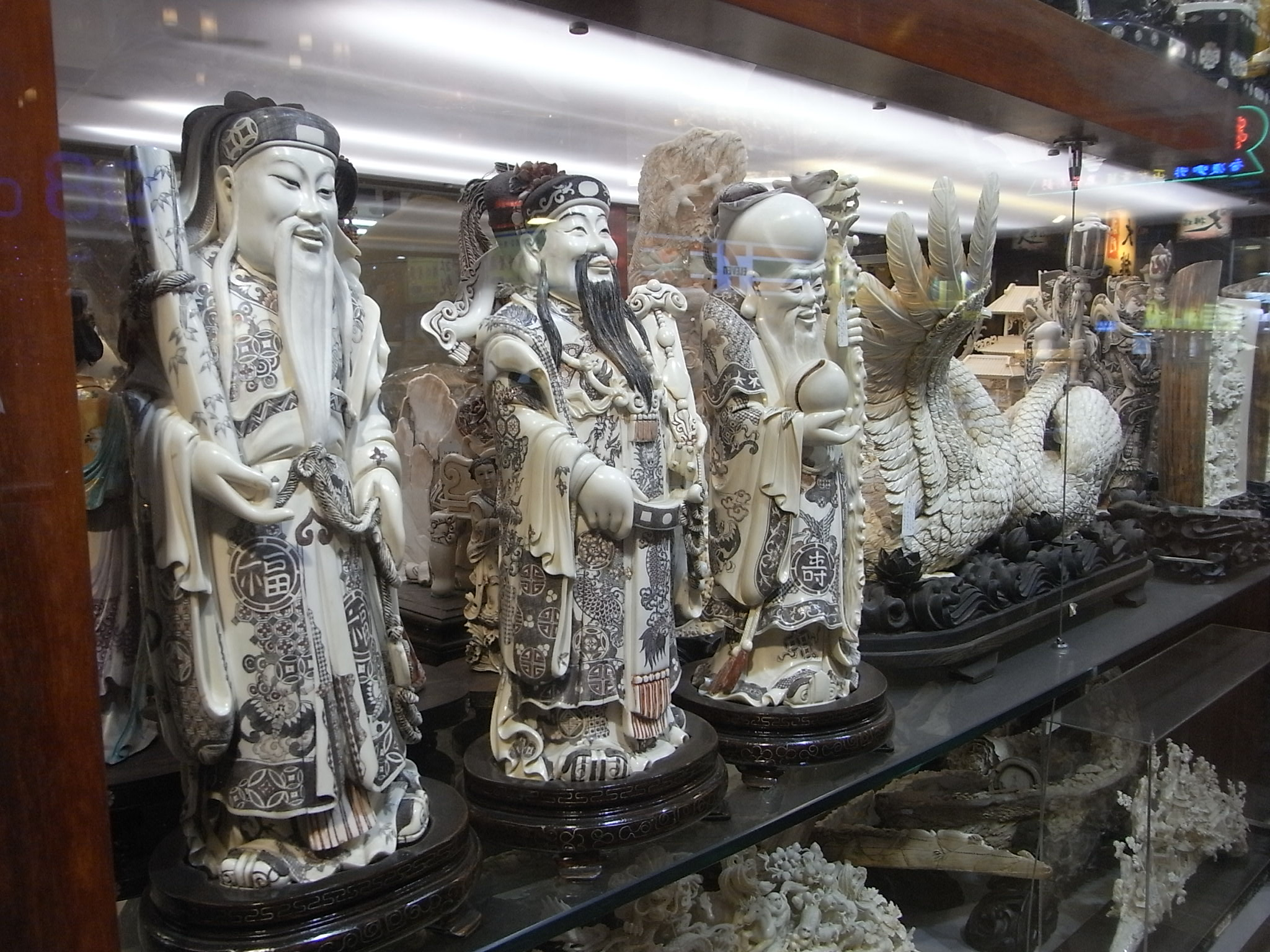 尖沙咀 樂道